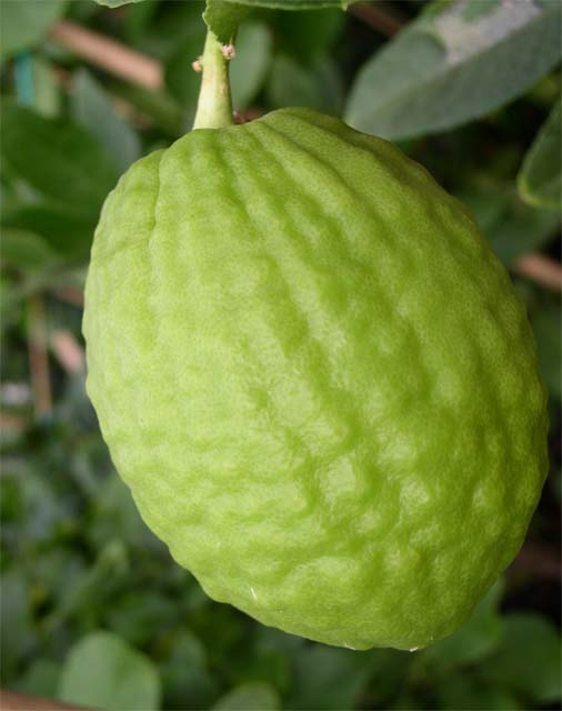 Corsican citron - Cedrat de Corse